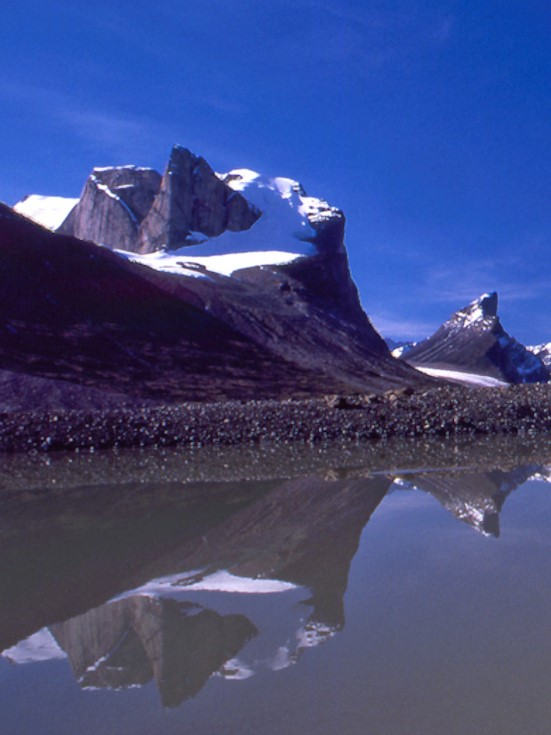 W:Breidablik Peak and W:Thor Peak (right) in W:Auyuittuq National Park, from our Summit Lake camp at the SW tip of the lake, in the early hours. And that's the Fork Beard Glacier between the two peaks